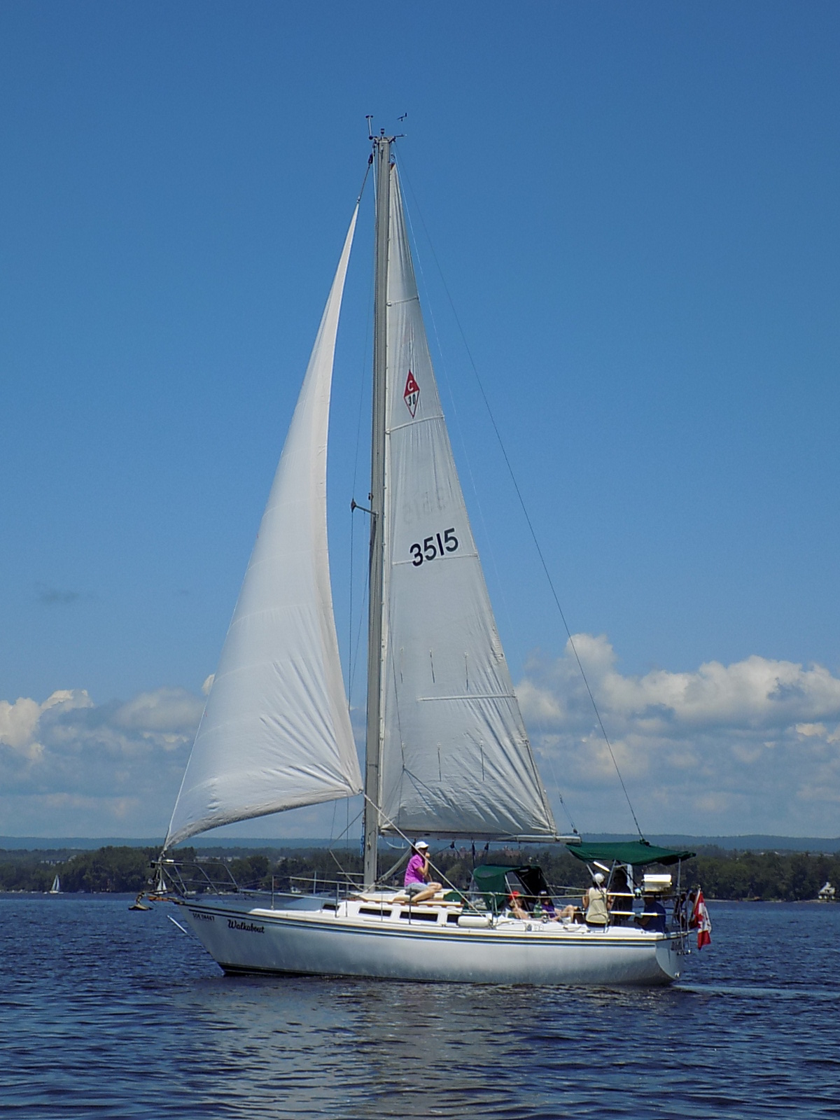 A Catalina 30 sailboat named Walkabout.